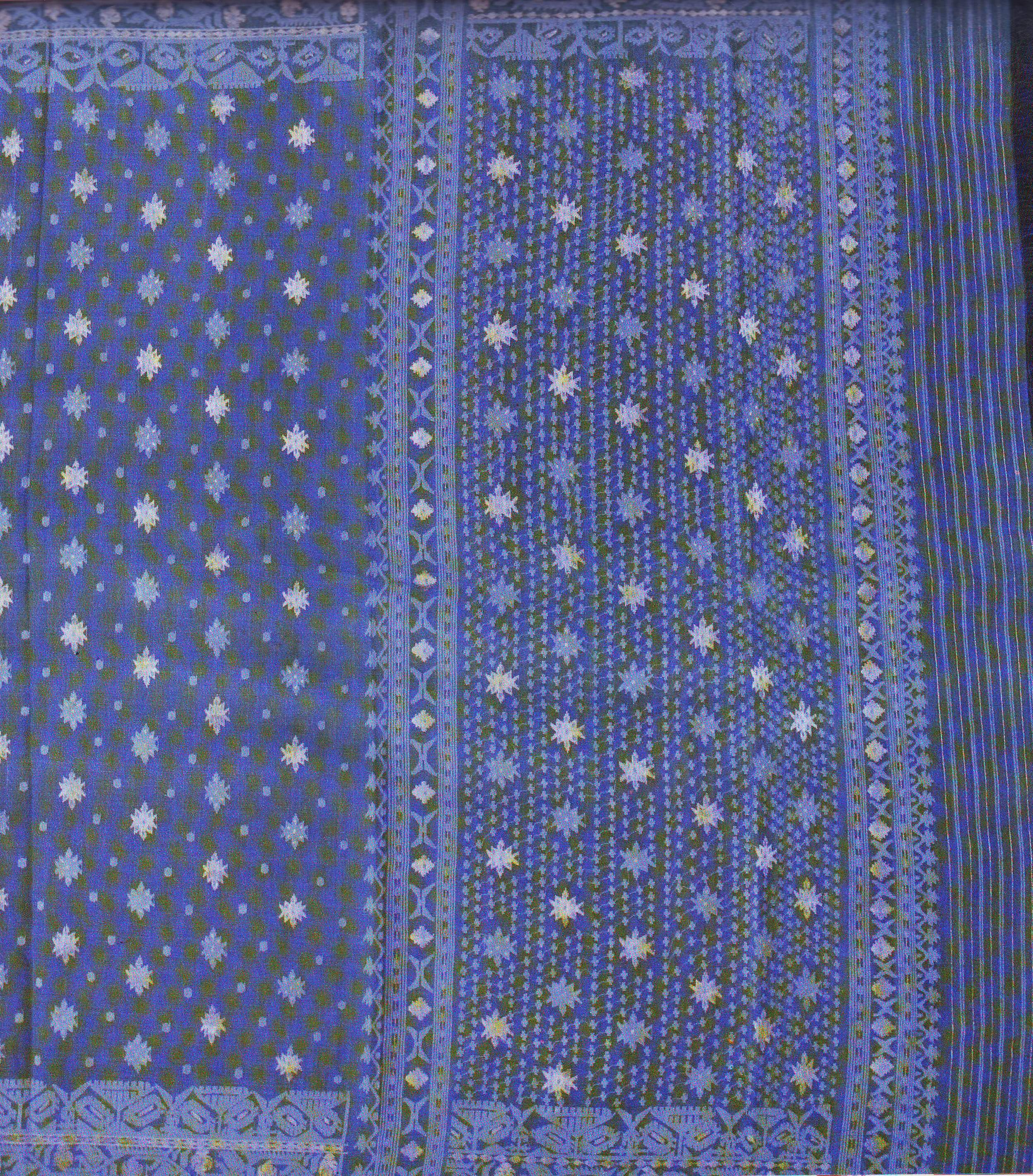 Traditional blue jamdani